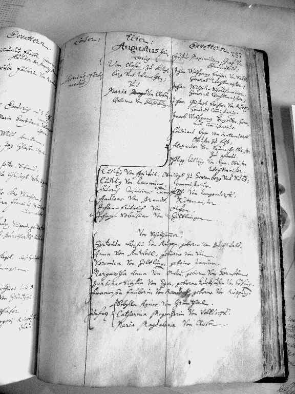 Entry of the christening of Ludowicus Ferdinandus von Closen in the Stiftskirche Tübingen (Germany)